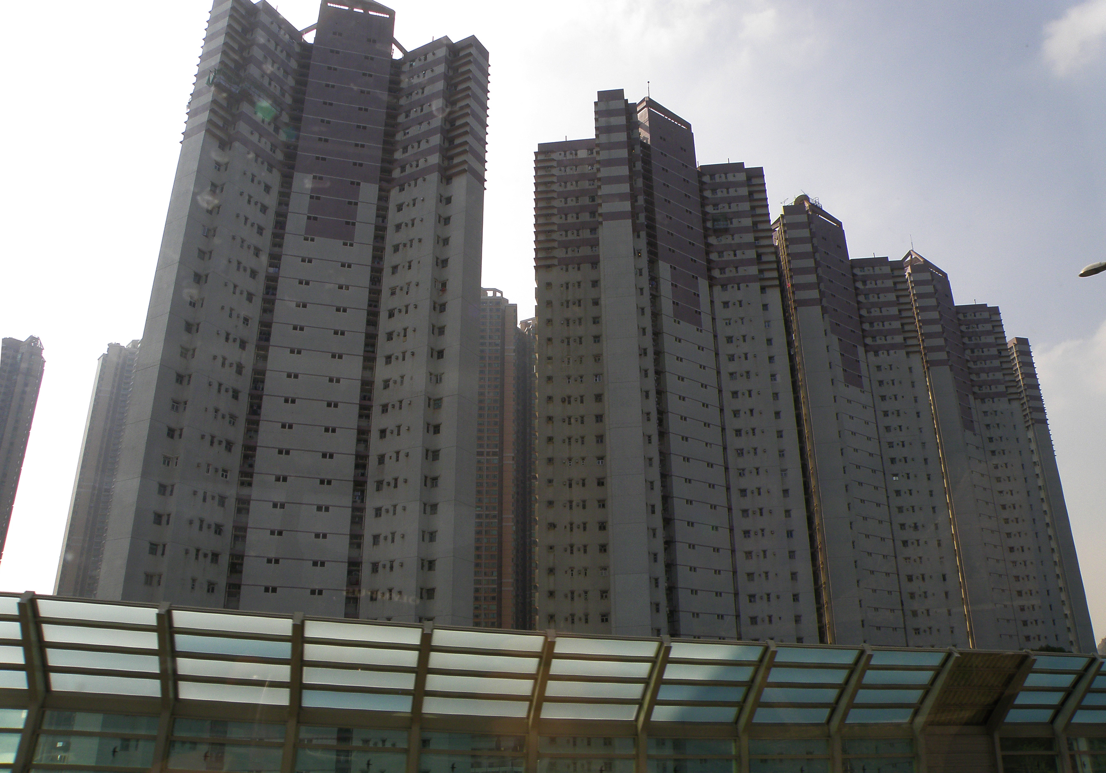 Rhine Garden in Sham Tseng, Hong Kong.